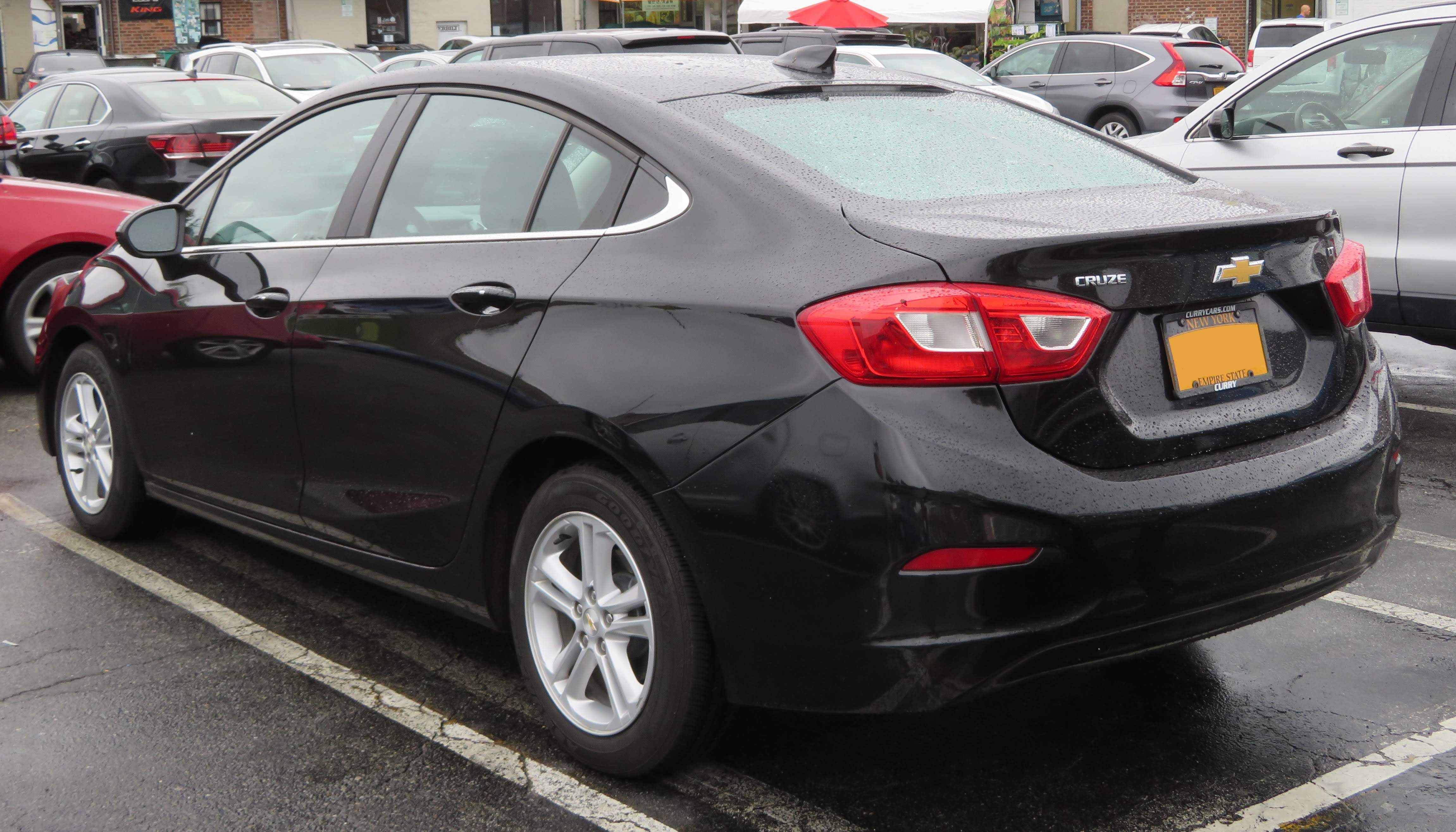 Photographed in Queens, New York